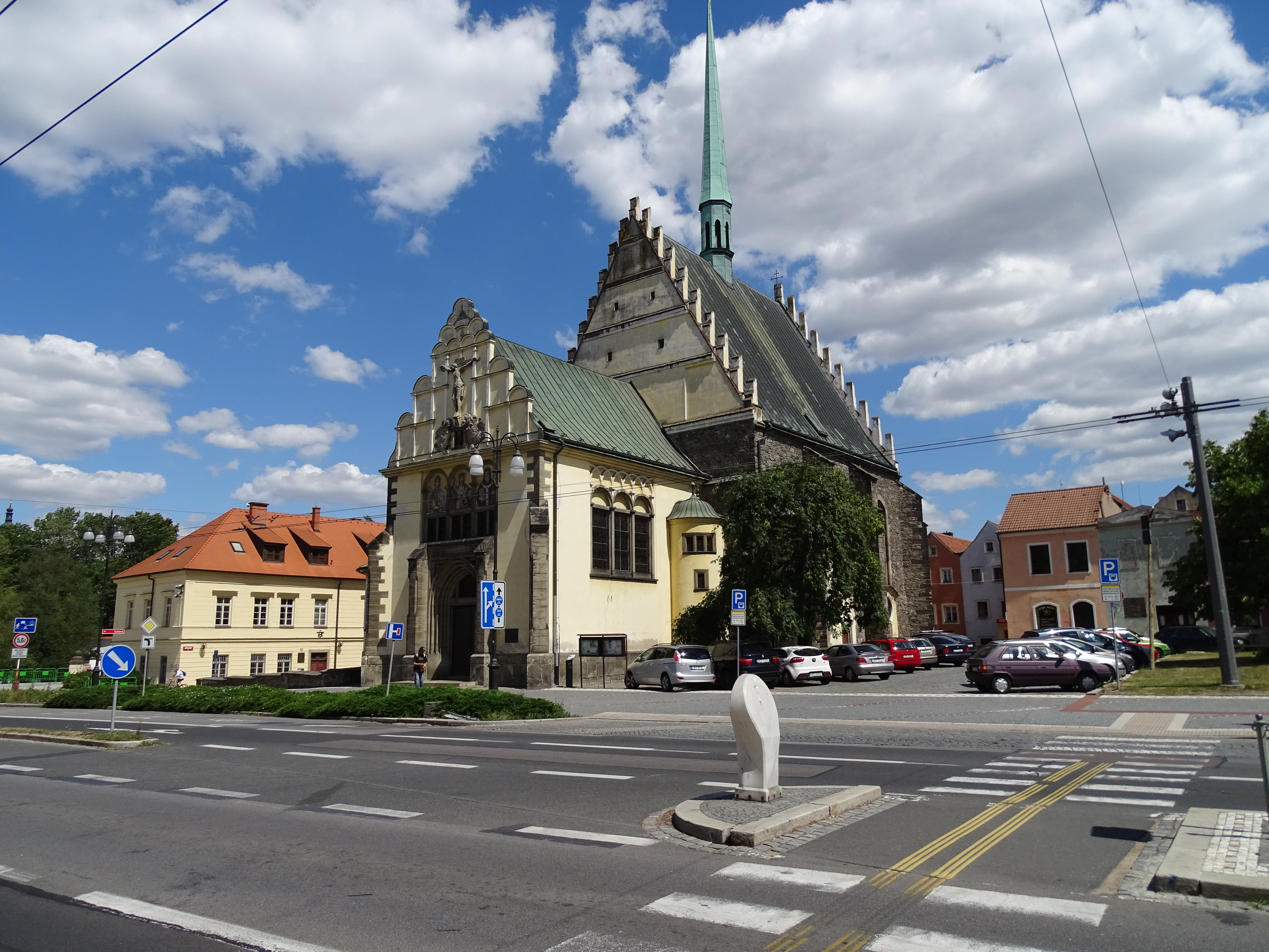 Pardubice I-Zelené Předměstí, Pardubice District, Pardubice Region, Czech Republic. Náměstí Republiky, church of Saint Bartholomew.